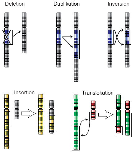 Scheme of possible chromosome mutations.